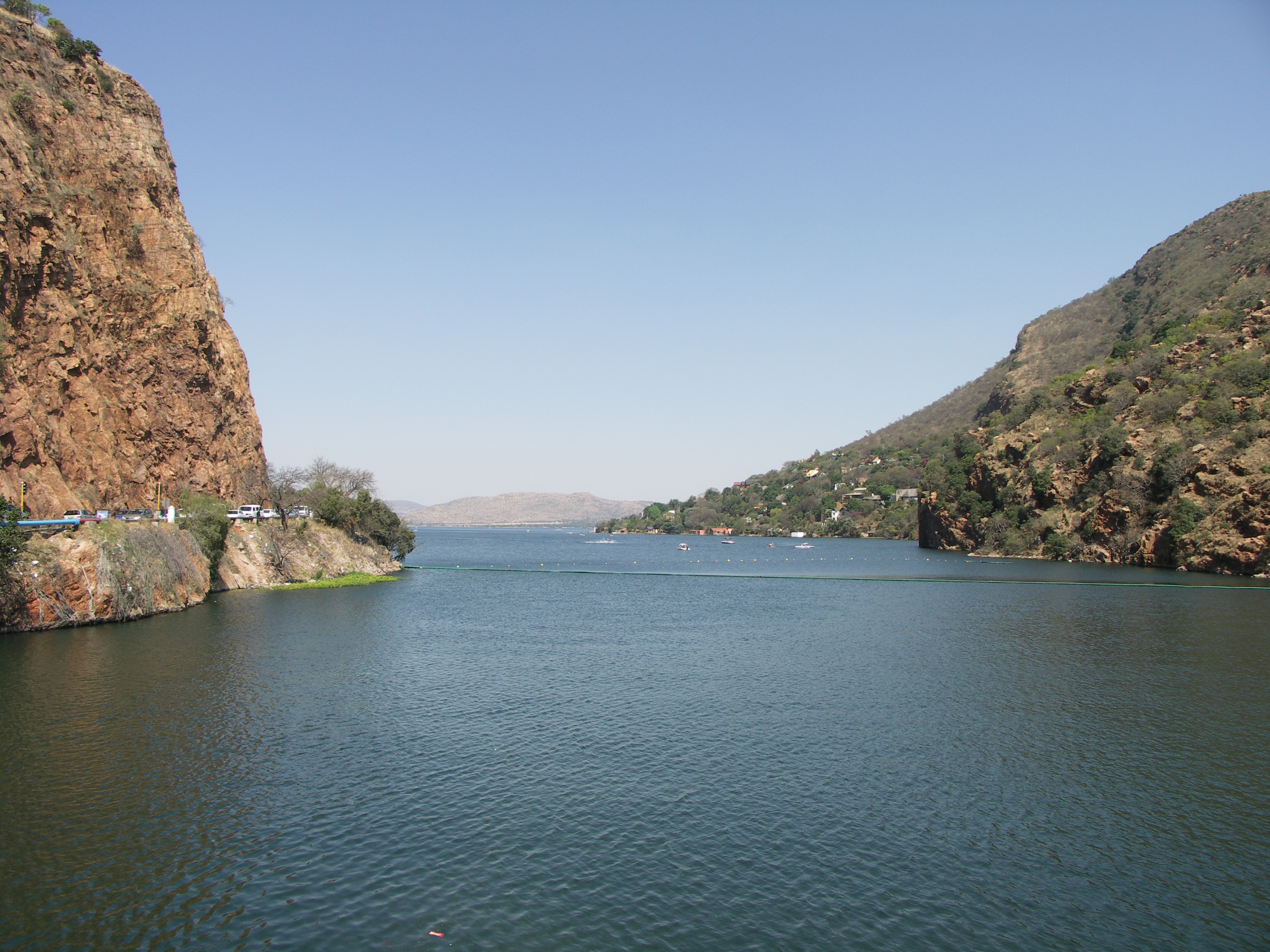 Hartbeespoort Dam Reservoir as seen from the dam wall